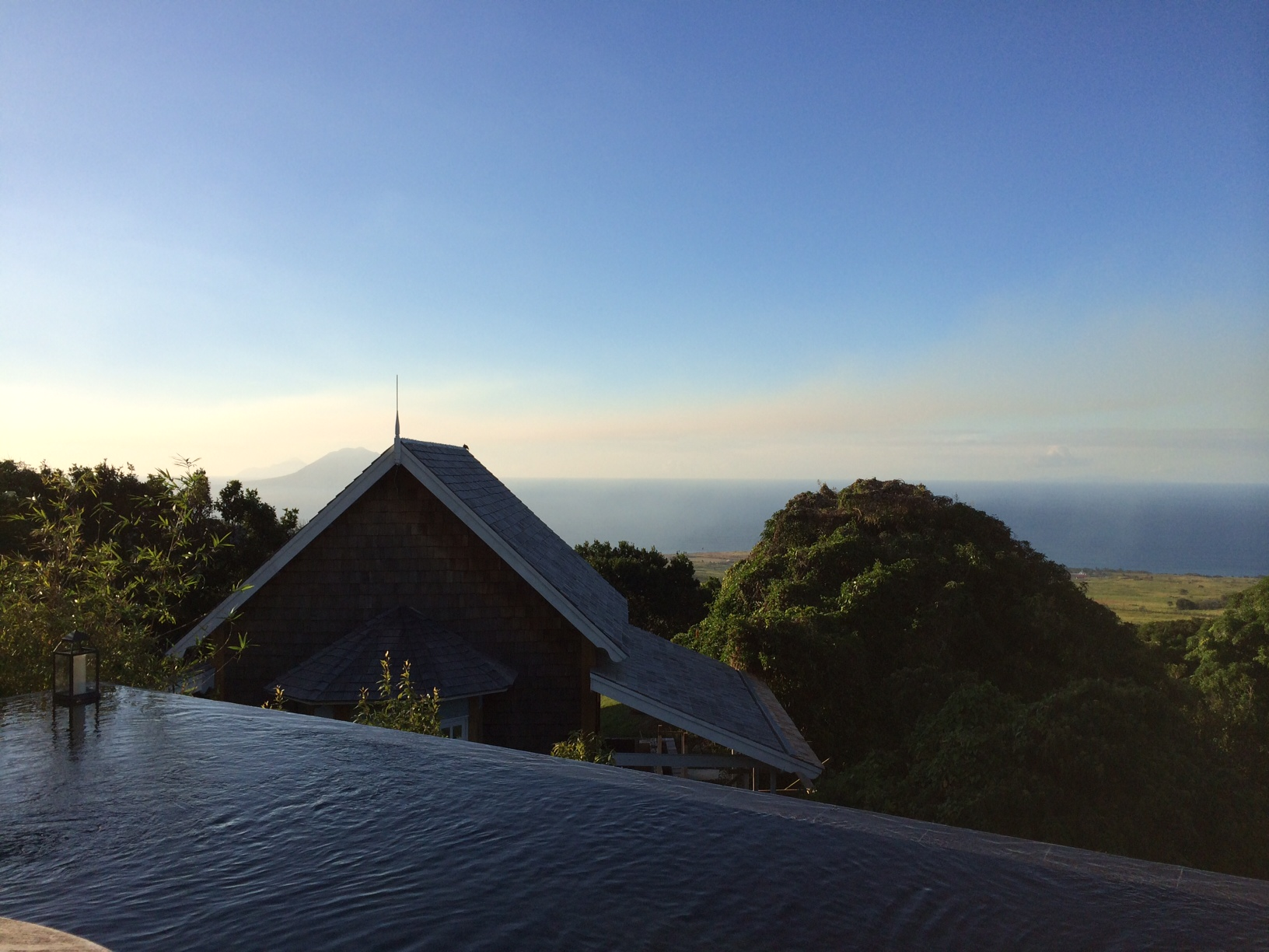 St Kitts' view